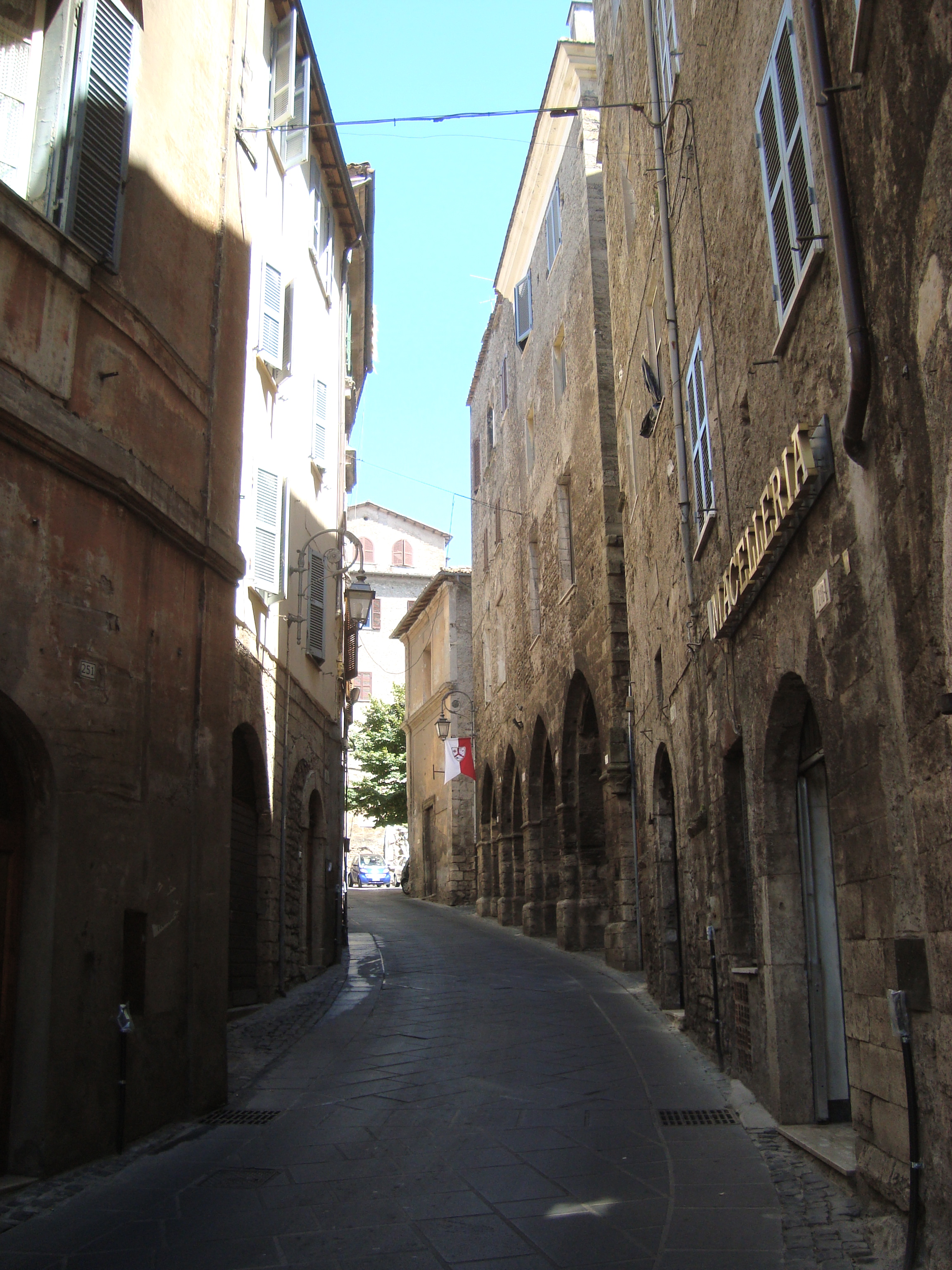 Via Vittore-Emmanuel in Anagni